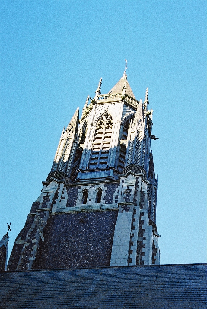 Upper stages of the tower of St Paul's parish church, Brighton, Sussex